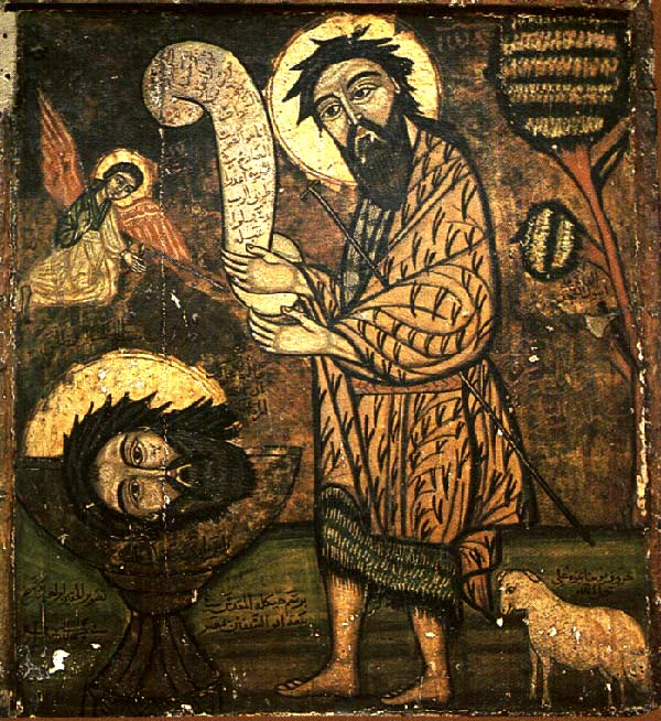 Coptic icon of John the Baptist